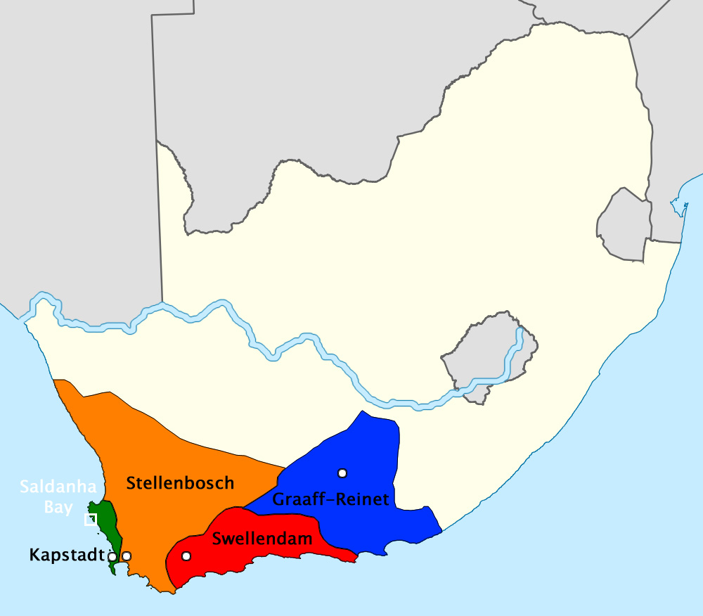 The four regions and administrative centres of Dutch Cape Colony at the eve of British occupation 1795/96: Cape Town (green), Stellenbosch (orange), Swellendam (red), Graaff-Reinet (blue)